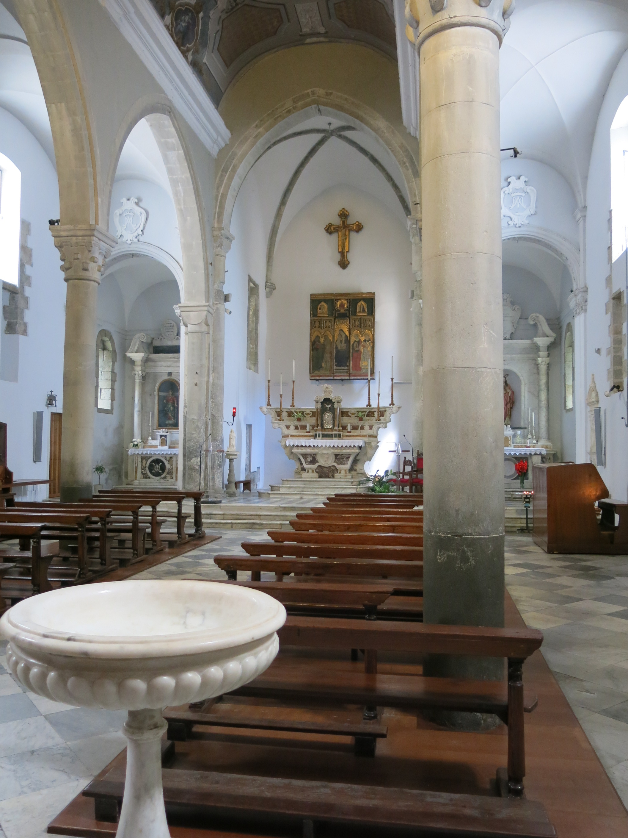 Nave of the church San Lorenzo in Manarola (Liguria, Italy).